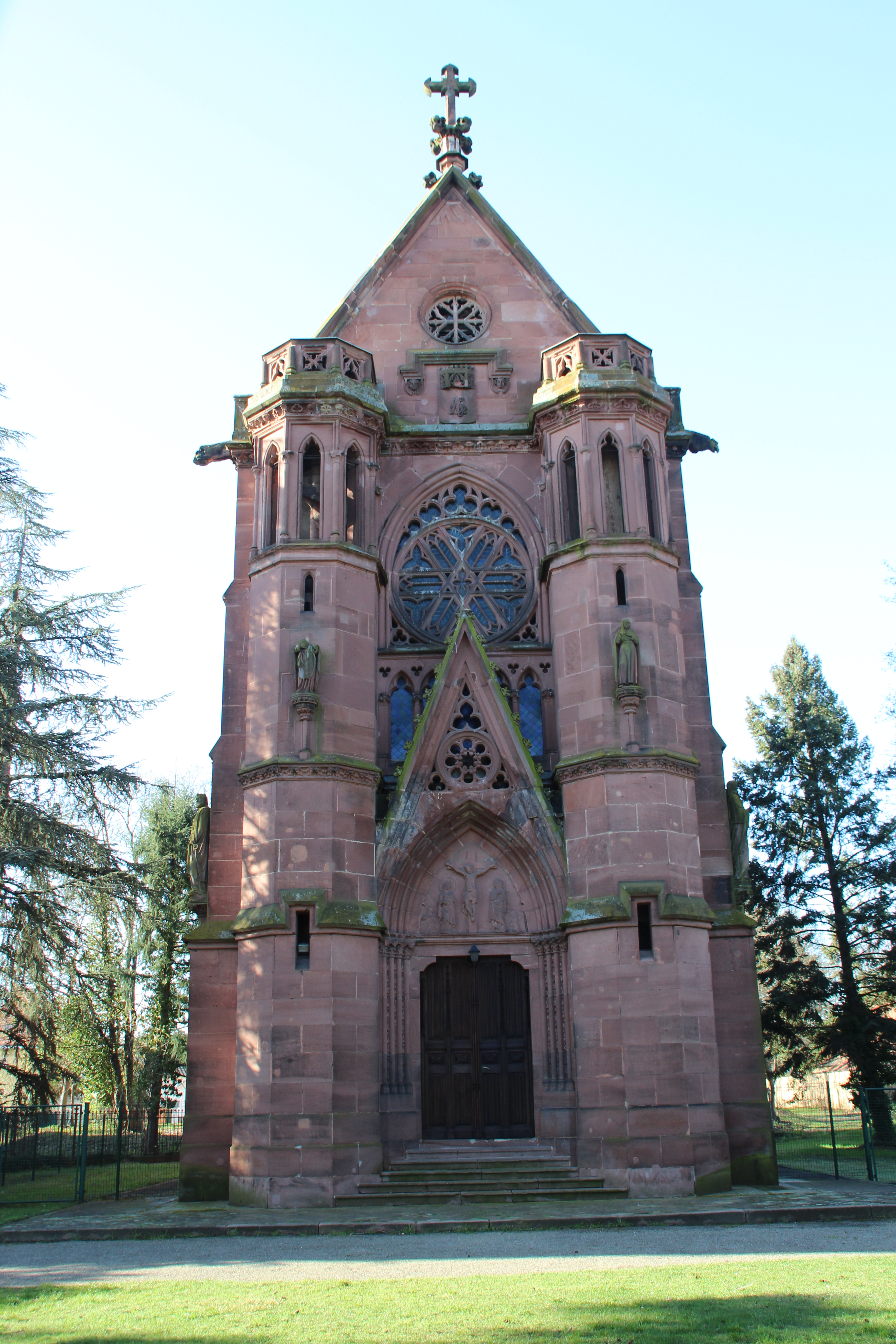 Herzog chapel of Logelbach located Herzog street in Wintzenheim, France.